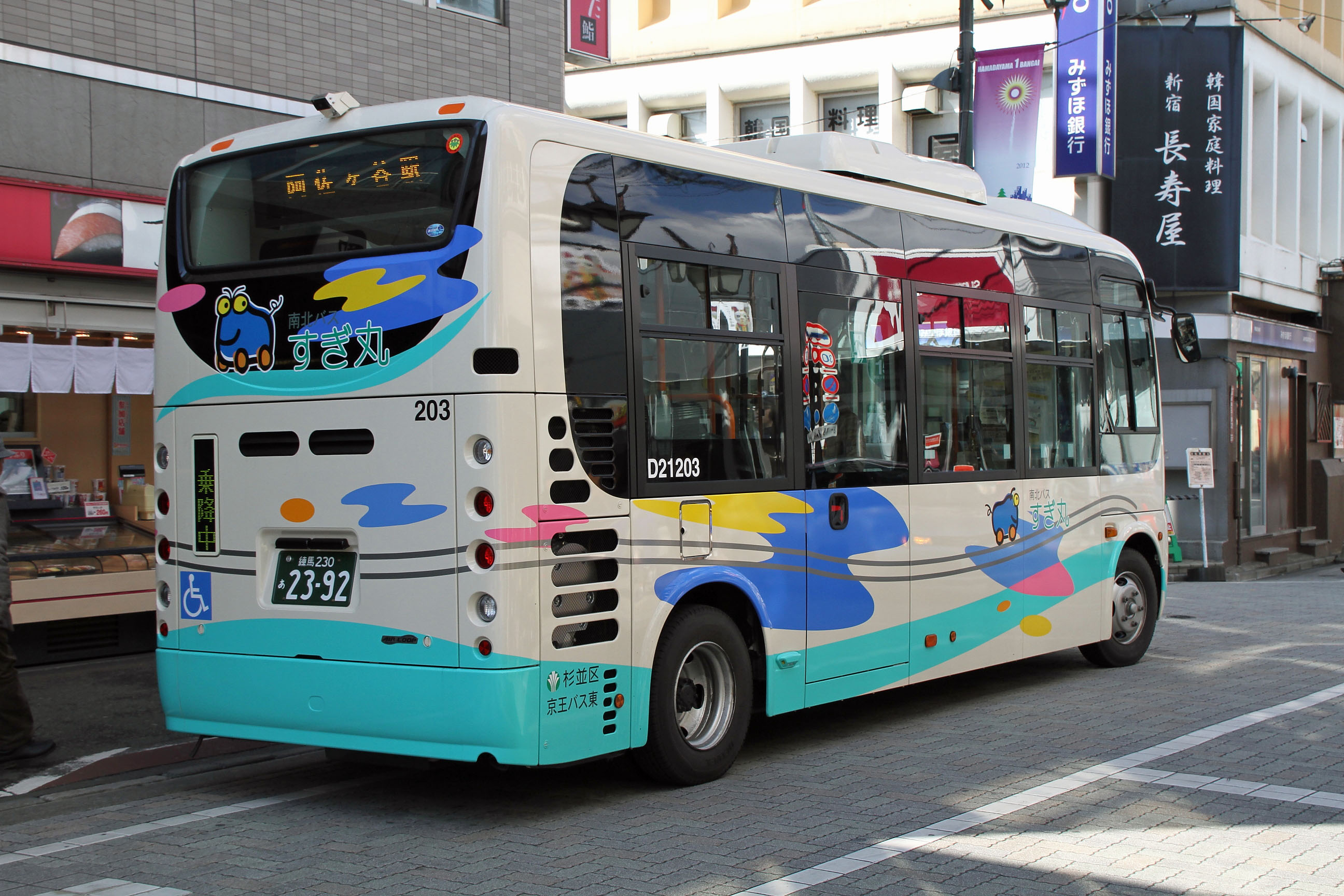 Suginami City Community Bus "Sugimaru" (rear view) 杉並区南北バス「すぎ丸」（後部）